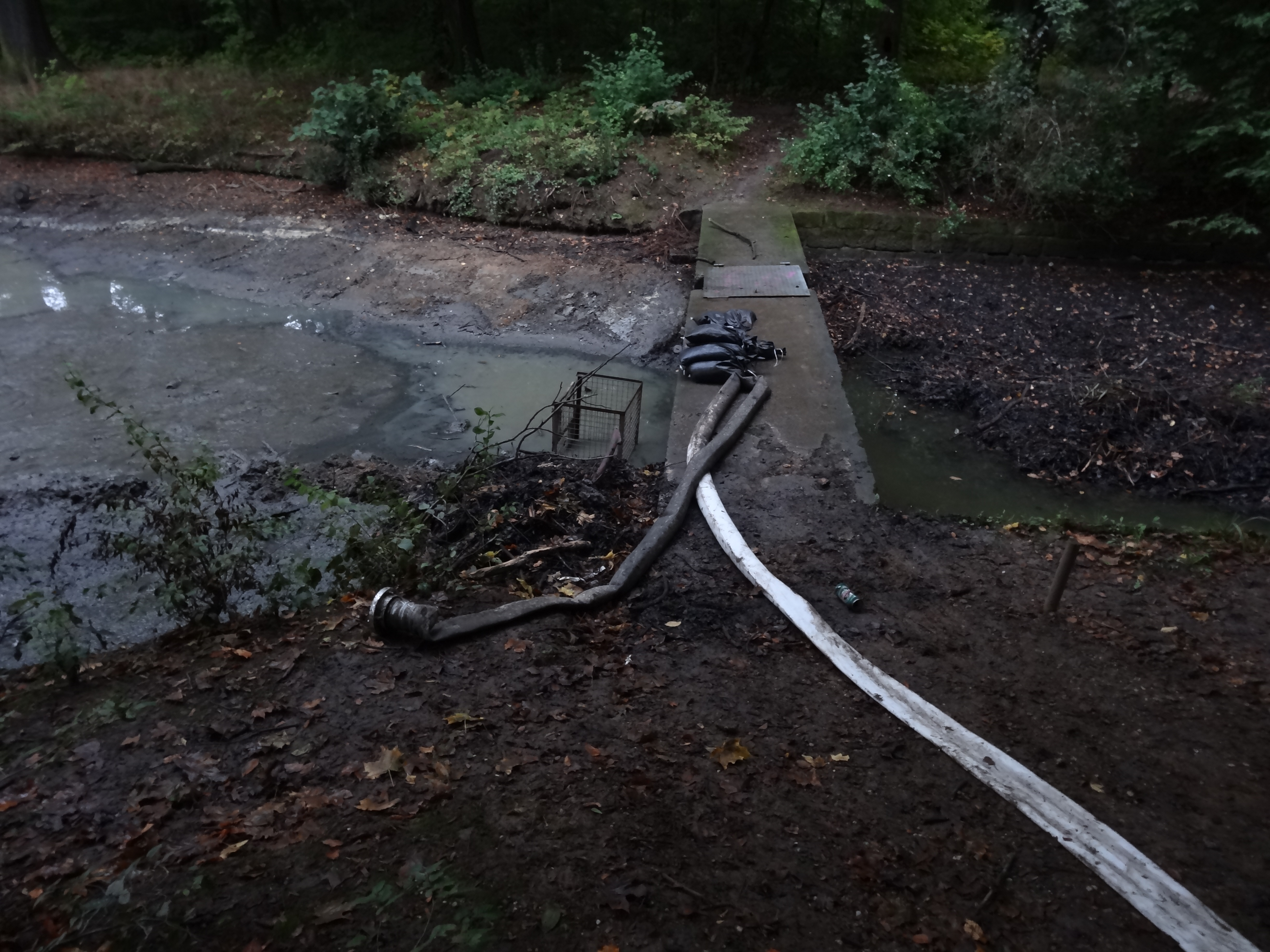 Deciduous trees around the channel and ponds are causing nonstop water pollution there that it create also black sapropel.